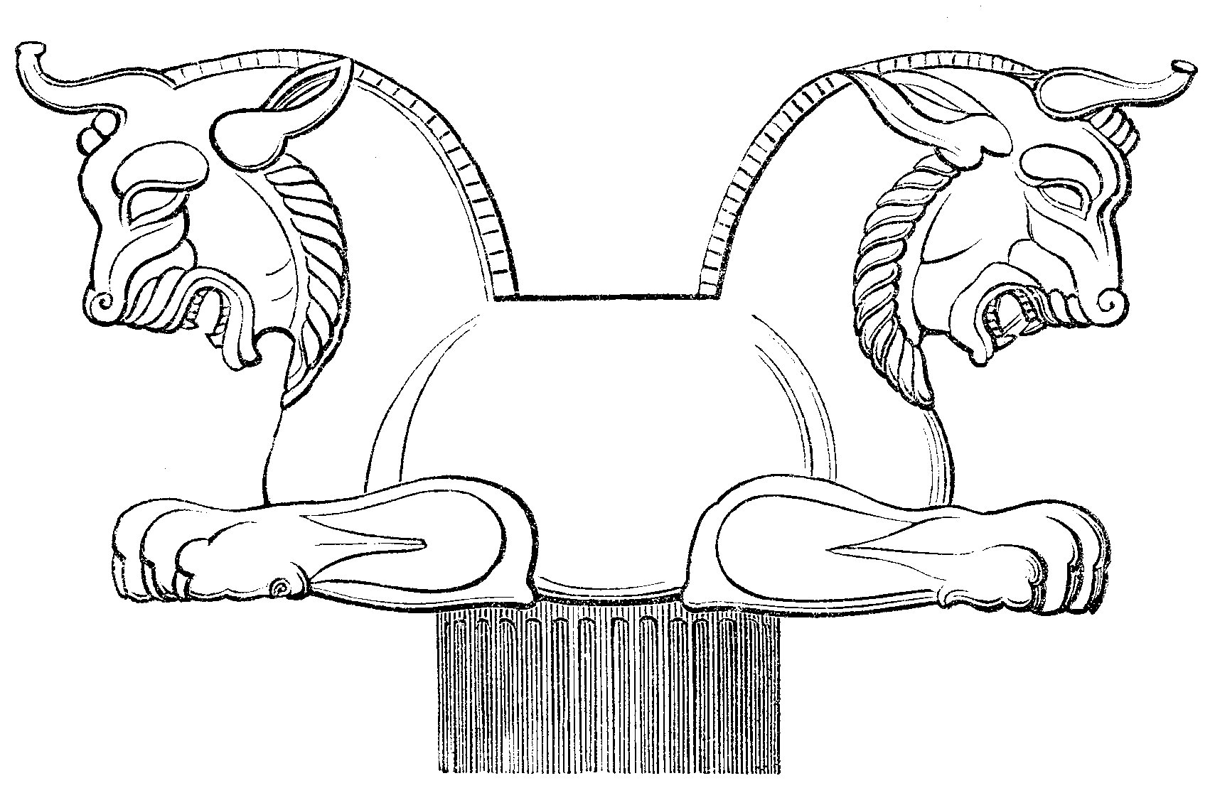 Illustration from "Illustrerad verldshistoria utgifven av E. Wallis. volume I": A capital from Persepolis.